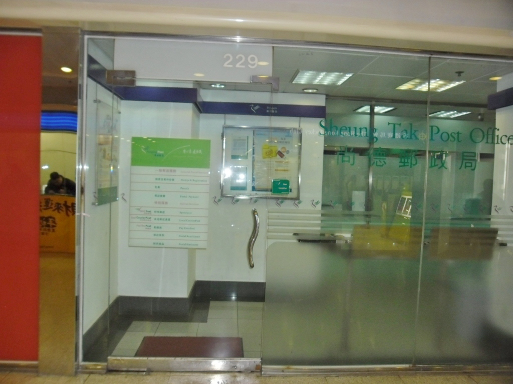 Sheung Tak Post Office, Tseung Kwan O中文（香港）: 將軍澳尚德郵政局